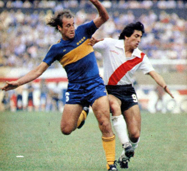 Roberto Mouzo (Boca Juniors) and Ramón Díaz (River Plate) going for the ball during a Superclásico.